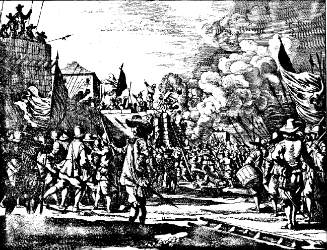 The Dutch Storm the fort of Galle during the siege of Portuguese fort Santa Cruz de Gale on 13th October 1640.